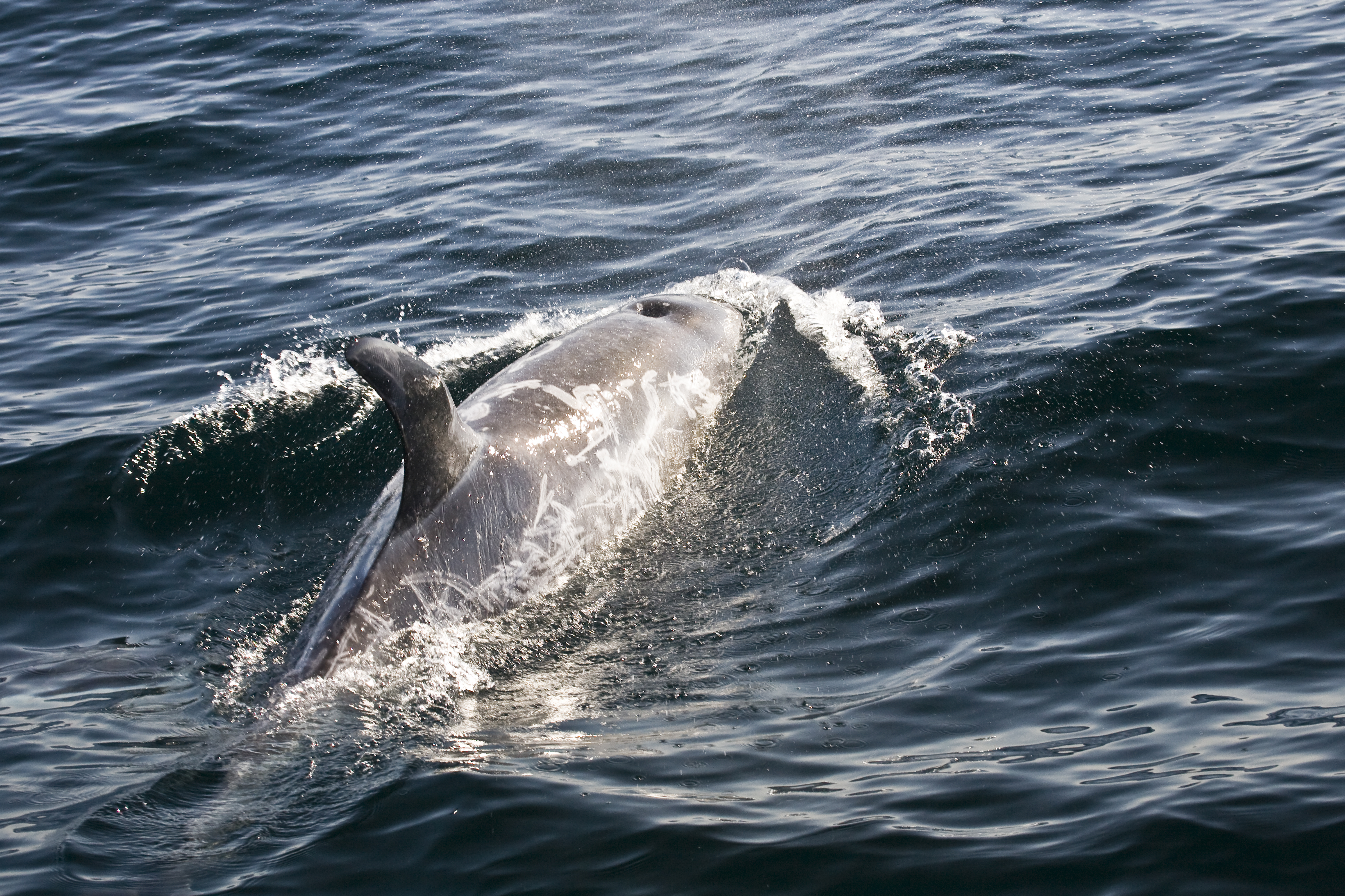 Risso's dolphin (Grampus griseus) - Pelagic Boat Trip - Leaders: Brian Sullivan, Brad Schram, Tom Edell - Sat. 19 Jan 2008 out of Avila, Port San Luis, CA - 2008 Morro Bay Winter Bird Festival